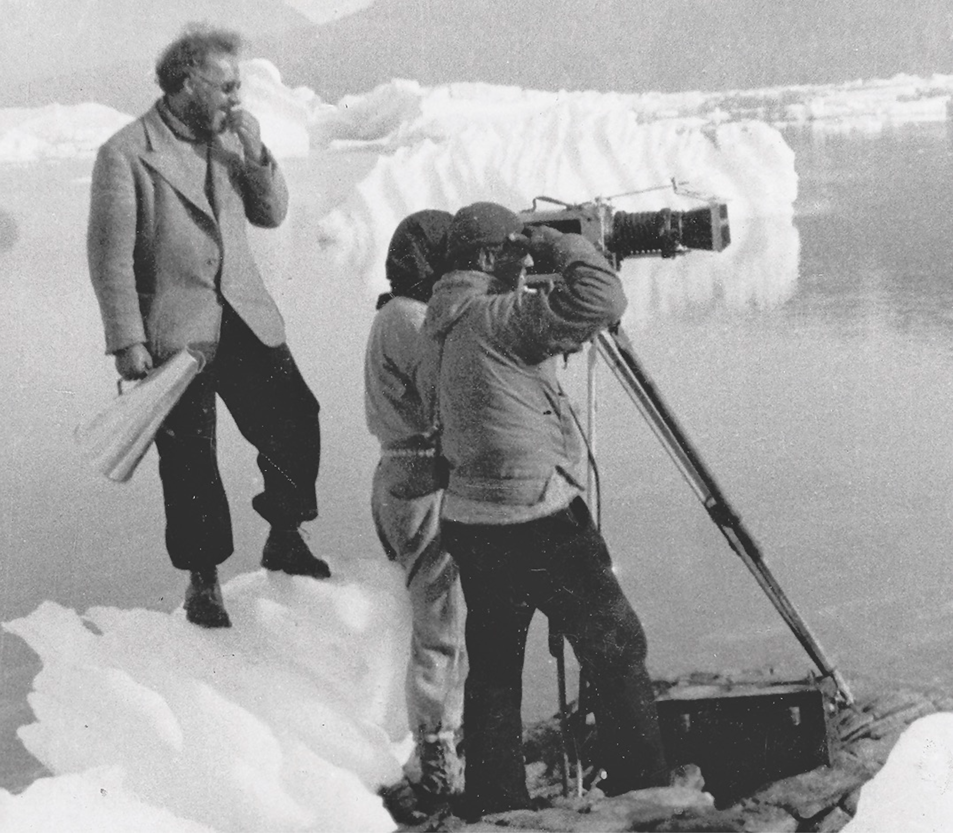 On the left: The German filmmaker Arnold Fanck (1889–1974) with a loudhailer/bullhorn in Greenland on set for his upcoming film S.O.S. Eisberg (aka SOS Iceberg or Iceland) which got released in 1933. The film camera on this picture is a Debrie Parvo, a 35mm motion picture camera by André Debrie Constructeurs Paris, here with a telephoto lens. Most of these telephoto lenses had been manufactured by Astro-Gesellschaft Berlin (Pan-Tachar lenses).